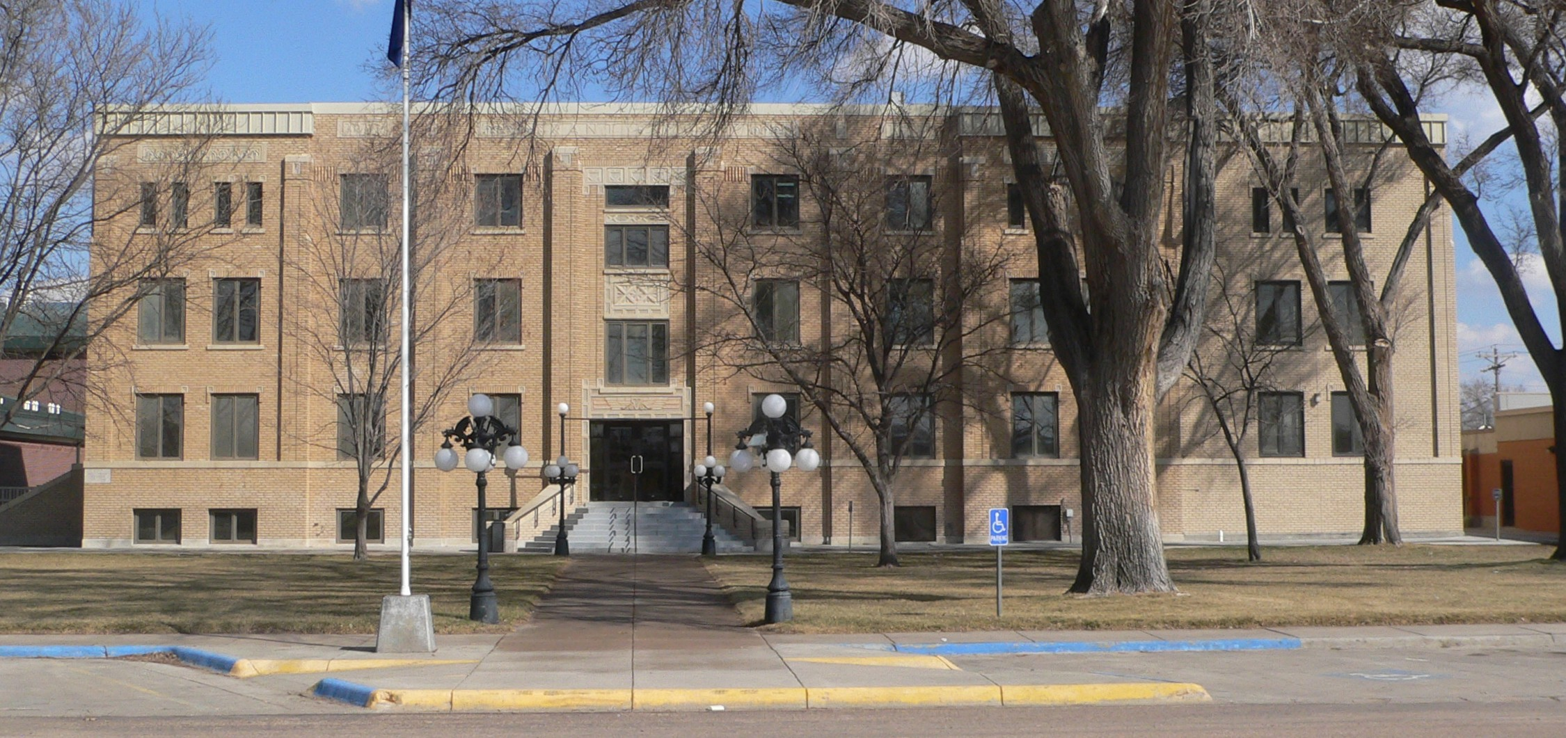 Grant County courthouse in Ulysses, Kansas; seen from the west.